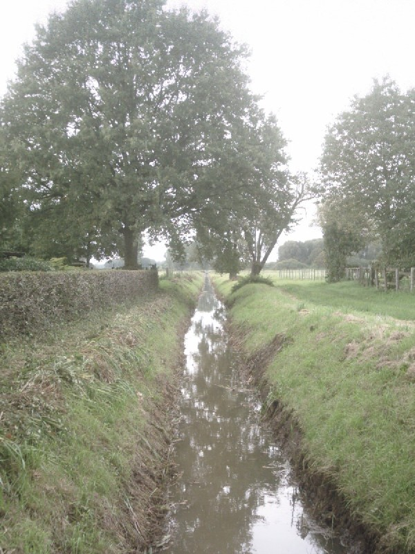 Kanal III3b near Reiherweg, Clörath, Germany